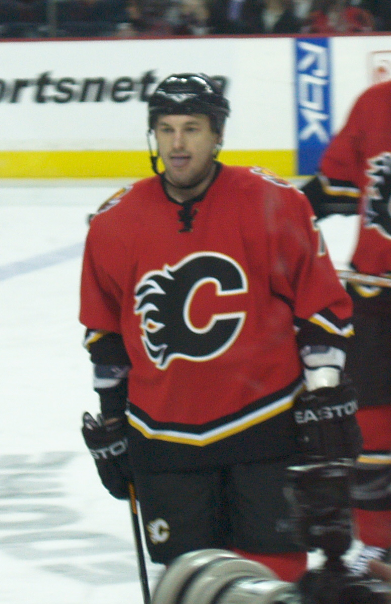 Andrei Zyuzin of the Calgary Flames, November 17, 2006